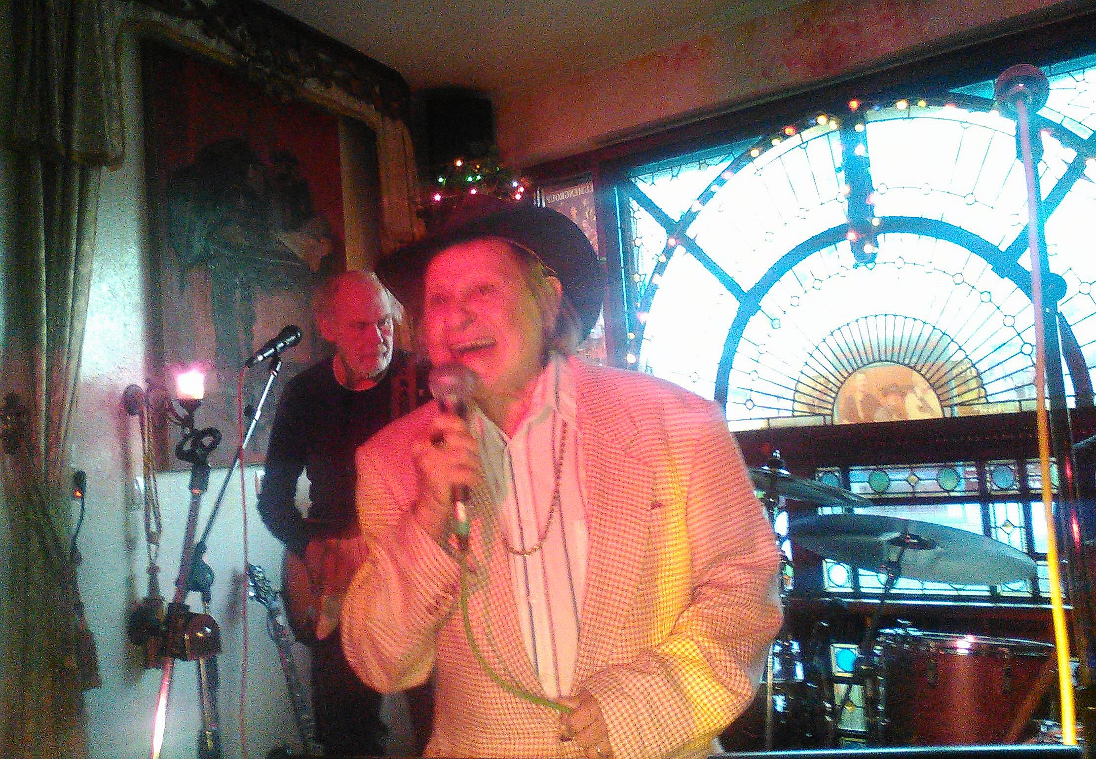 Casey Jones (with Here Comes Johnny) live at Café Curioso, Heinsberg, Germany